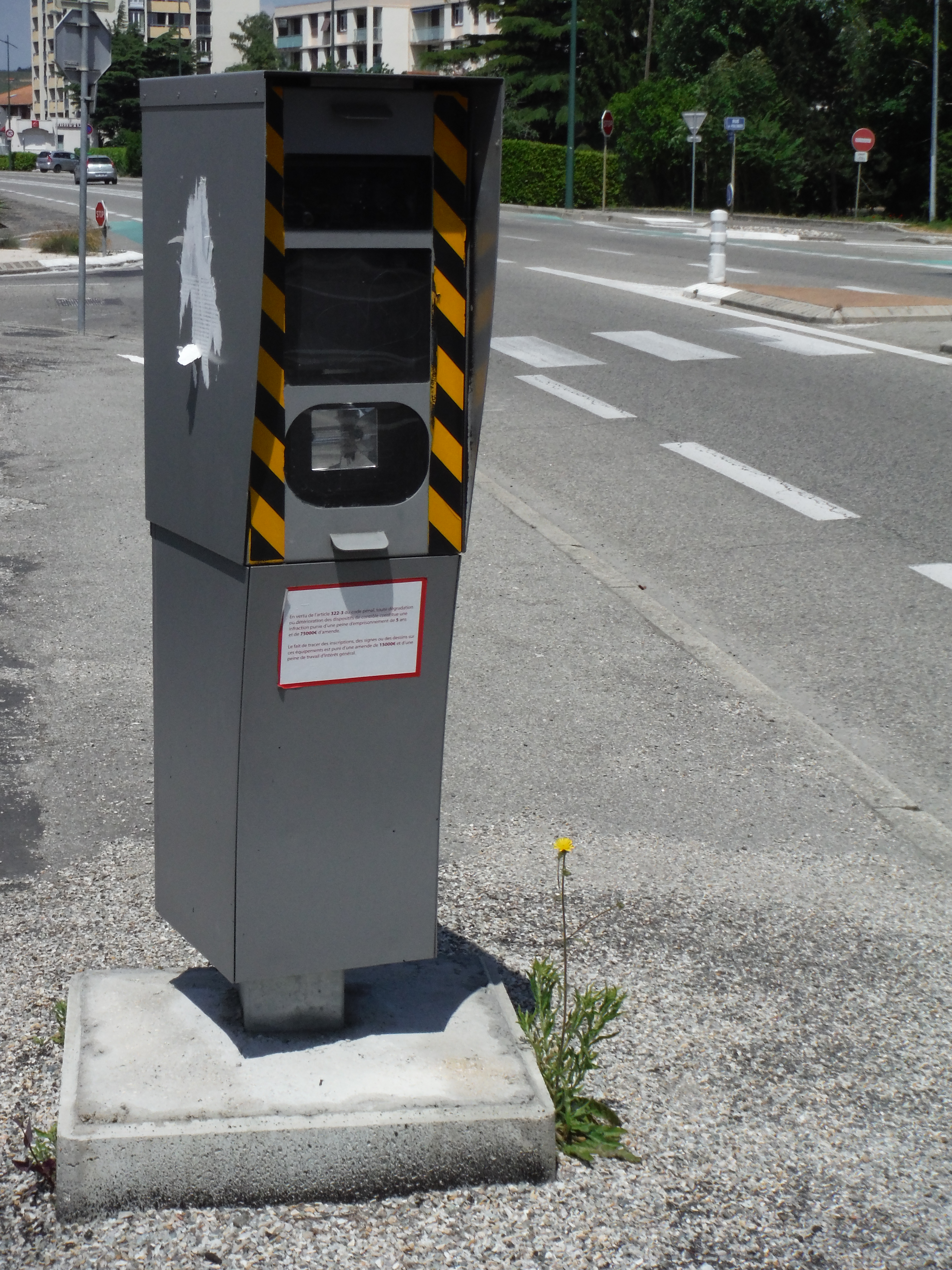 Radar de Tournon-sur-Rhône à son nouvel emplacement. Il a été déplacé à la demande du propriétaire du terrain en face duquel il était placé. cf.